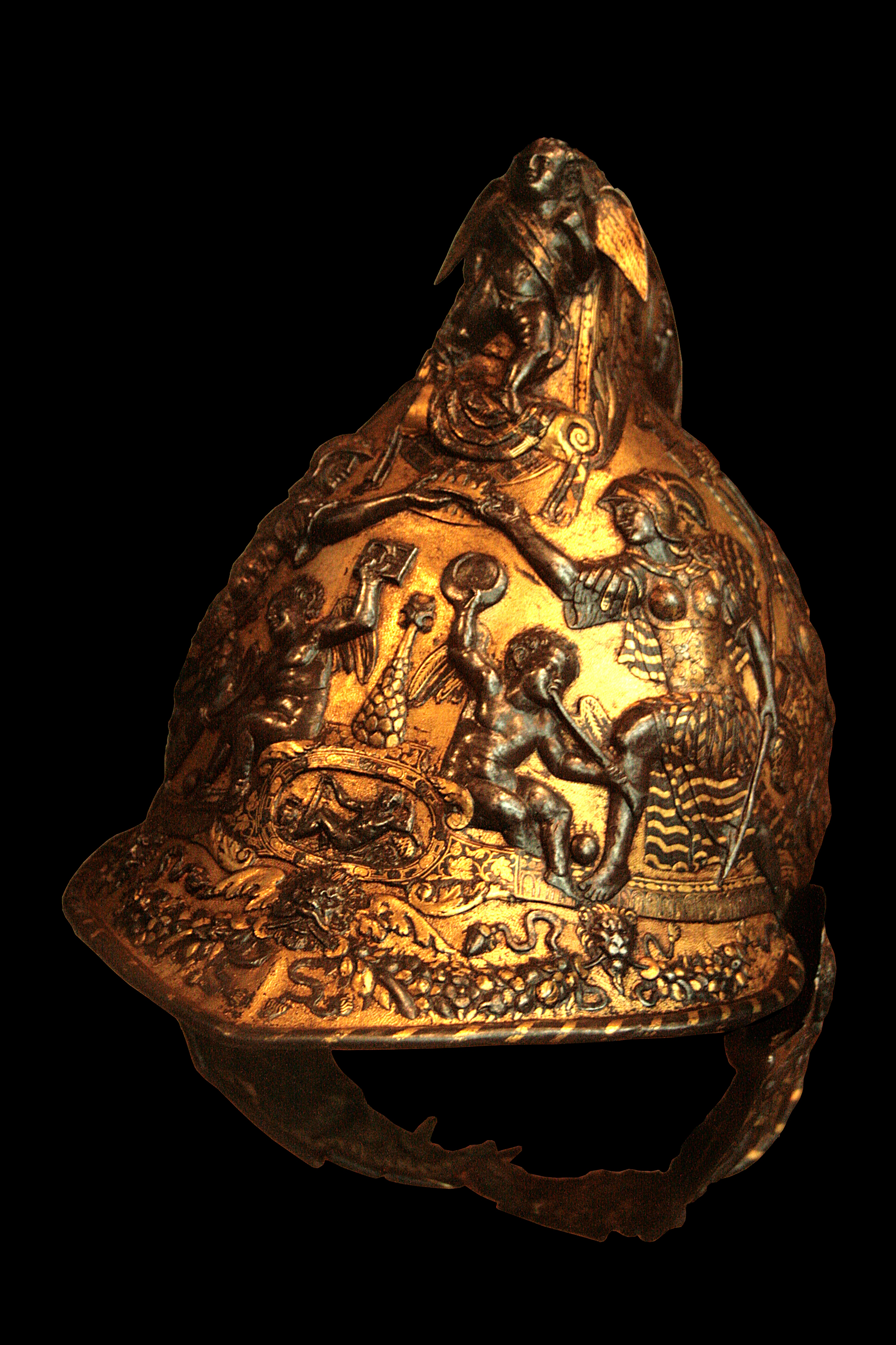 Burgonet of King Henry II in engraved, repelled, damascened, silvered and gilded steel. Piece probably made in Italy in the 16th century and kept in the Army Museum of the Hôtel de Invalides in Paris.